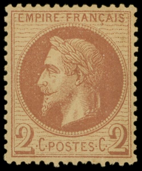 France, stamp Empire Napoleon III, 1870, "Empire Laure"